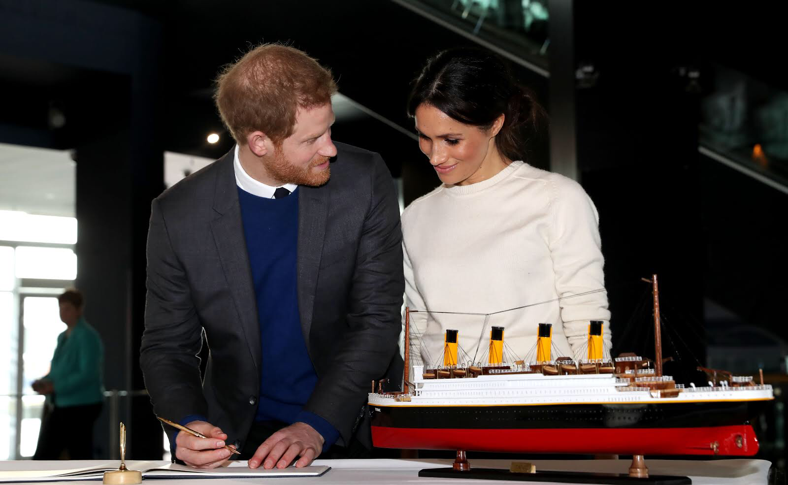 Prince Harry and Ms. Markle visit Titanic Belfast